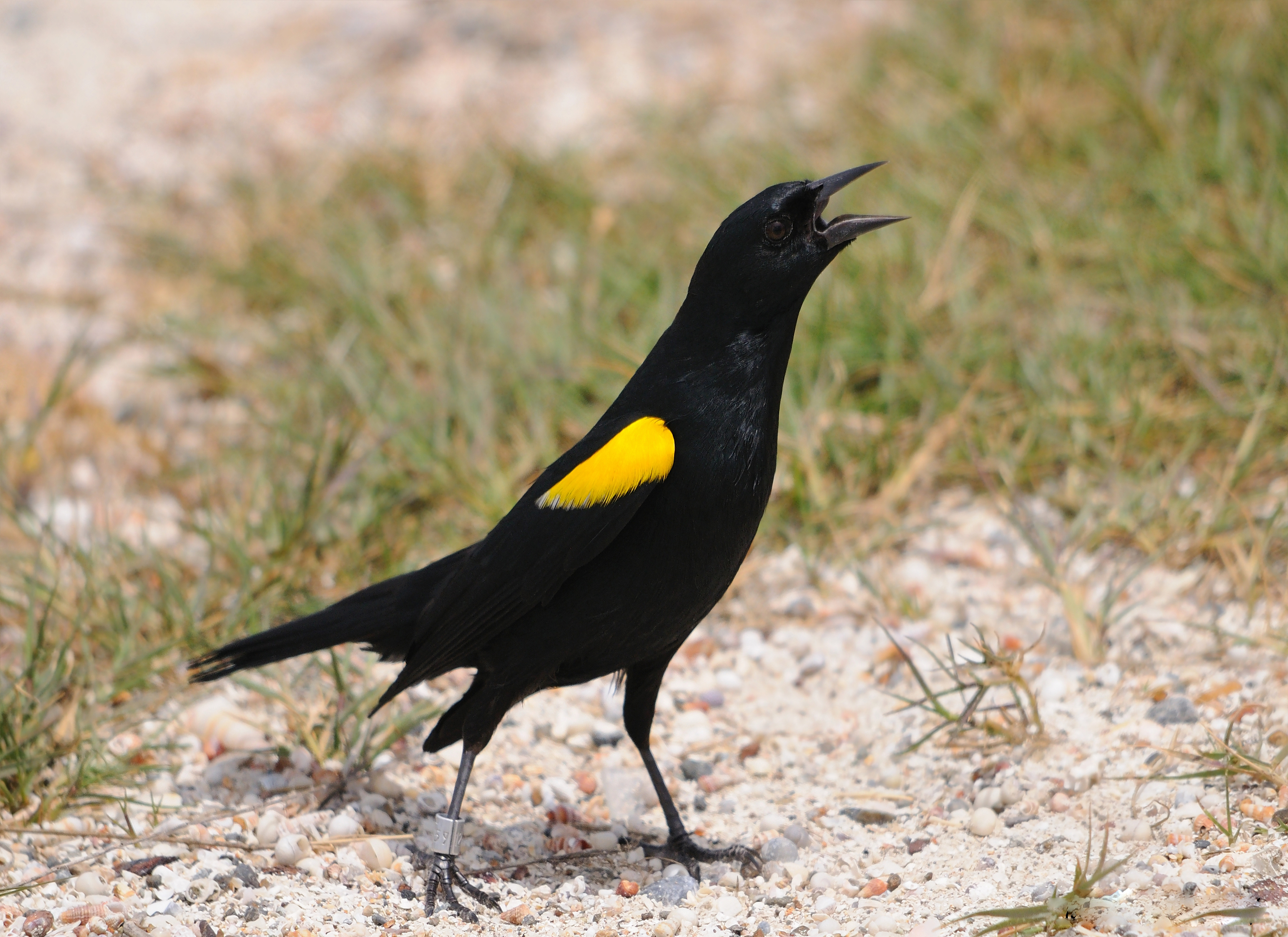 A Yellow-shouldered blackbird in Puerto Rico